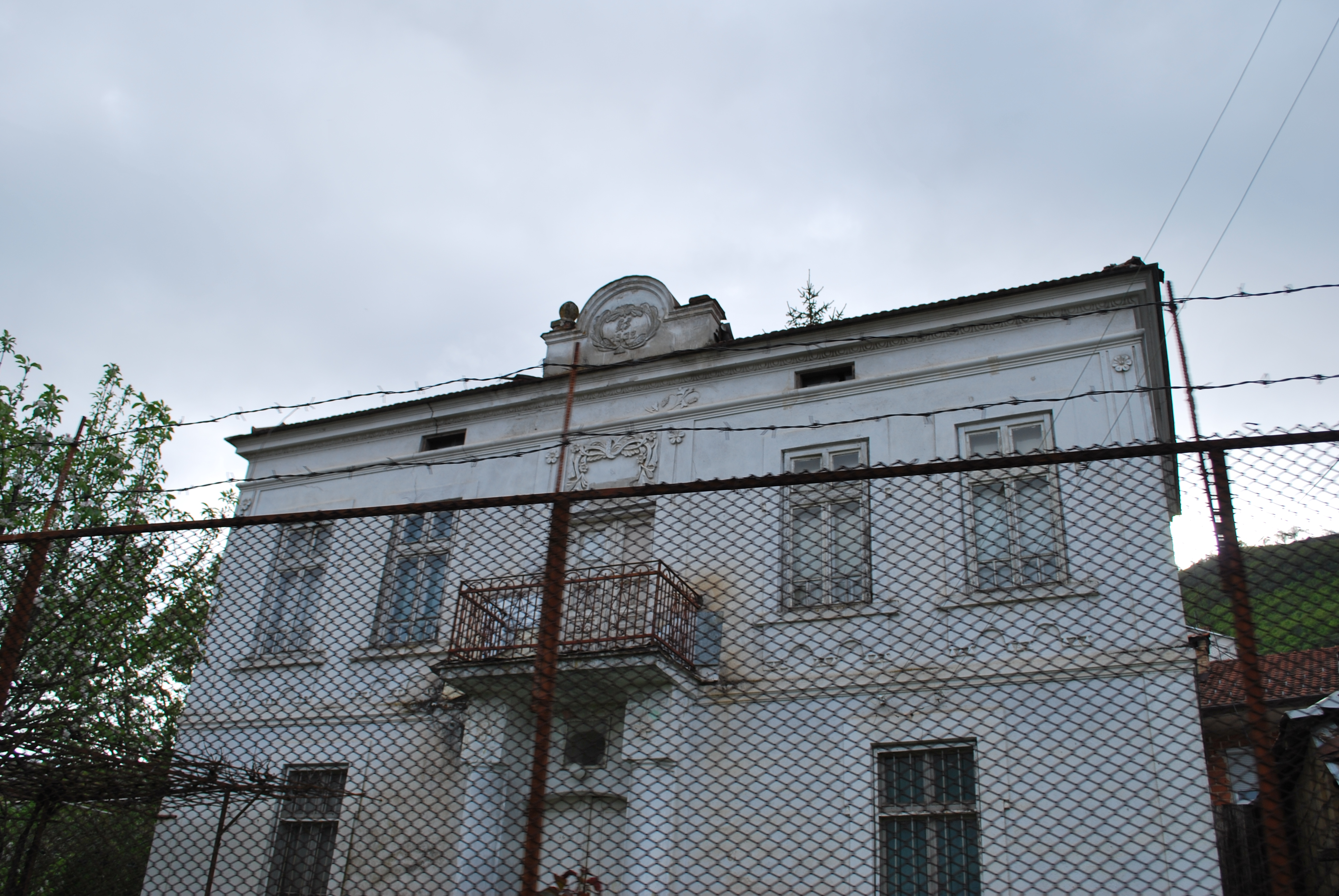 Vrutok, Macedonia